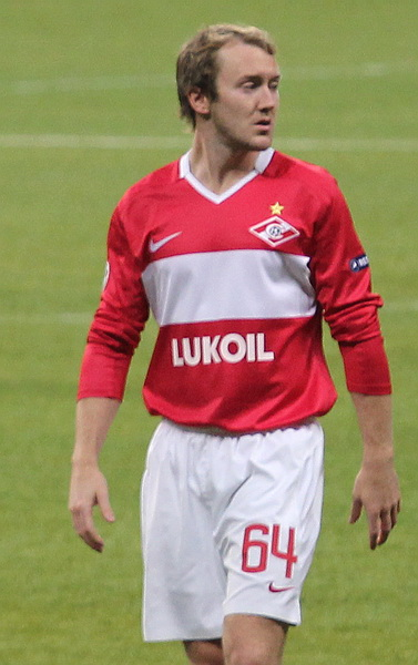 Aiden McGeady